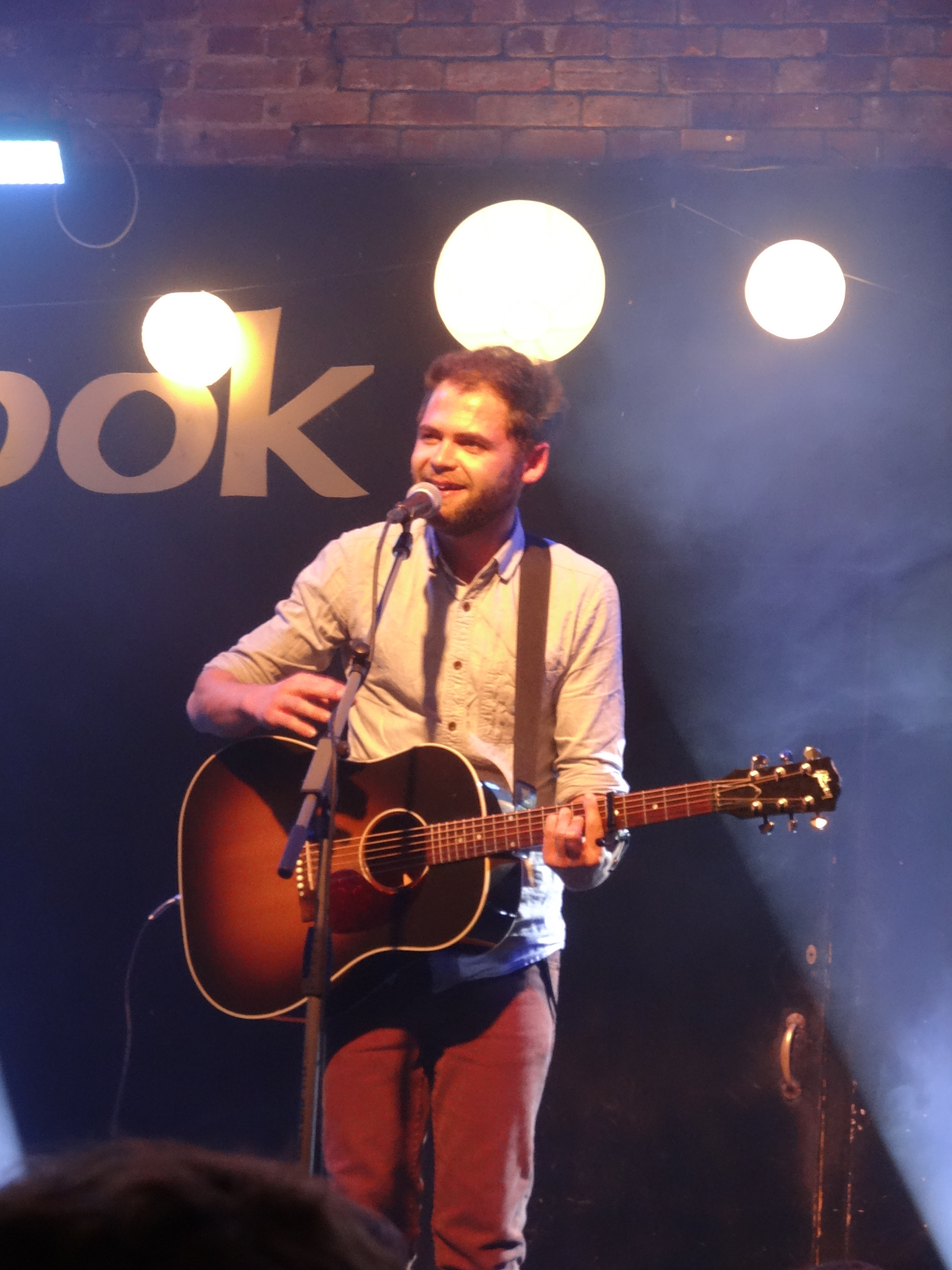 Mike Rosenberg (AKA Passenger), seen performing at The Brook music venue, Southampton, Hampshire, in January 2013.